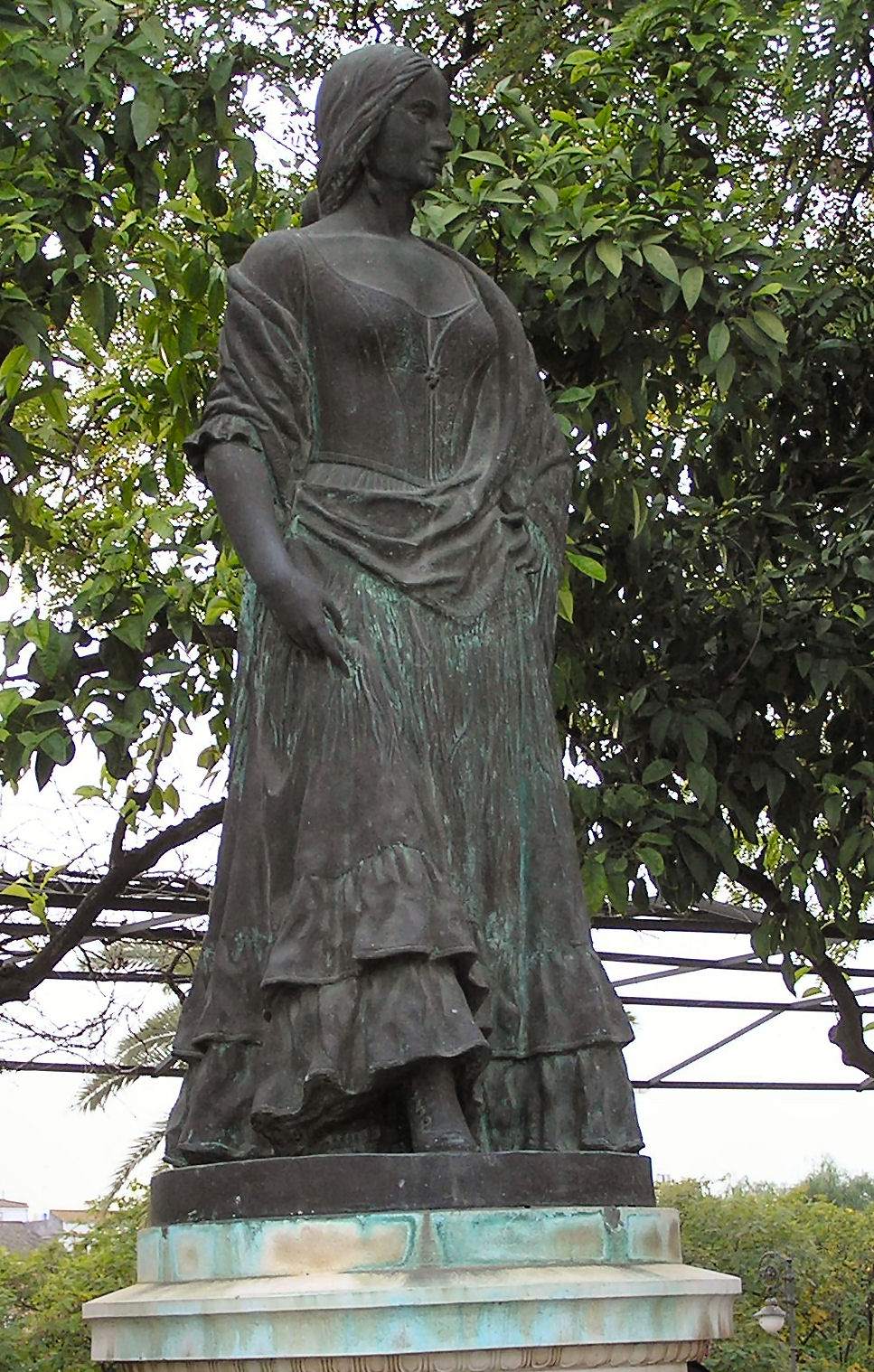 Statue of Carmen outside Maestranza Bullring, Sevilla